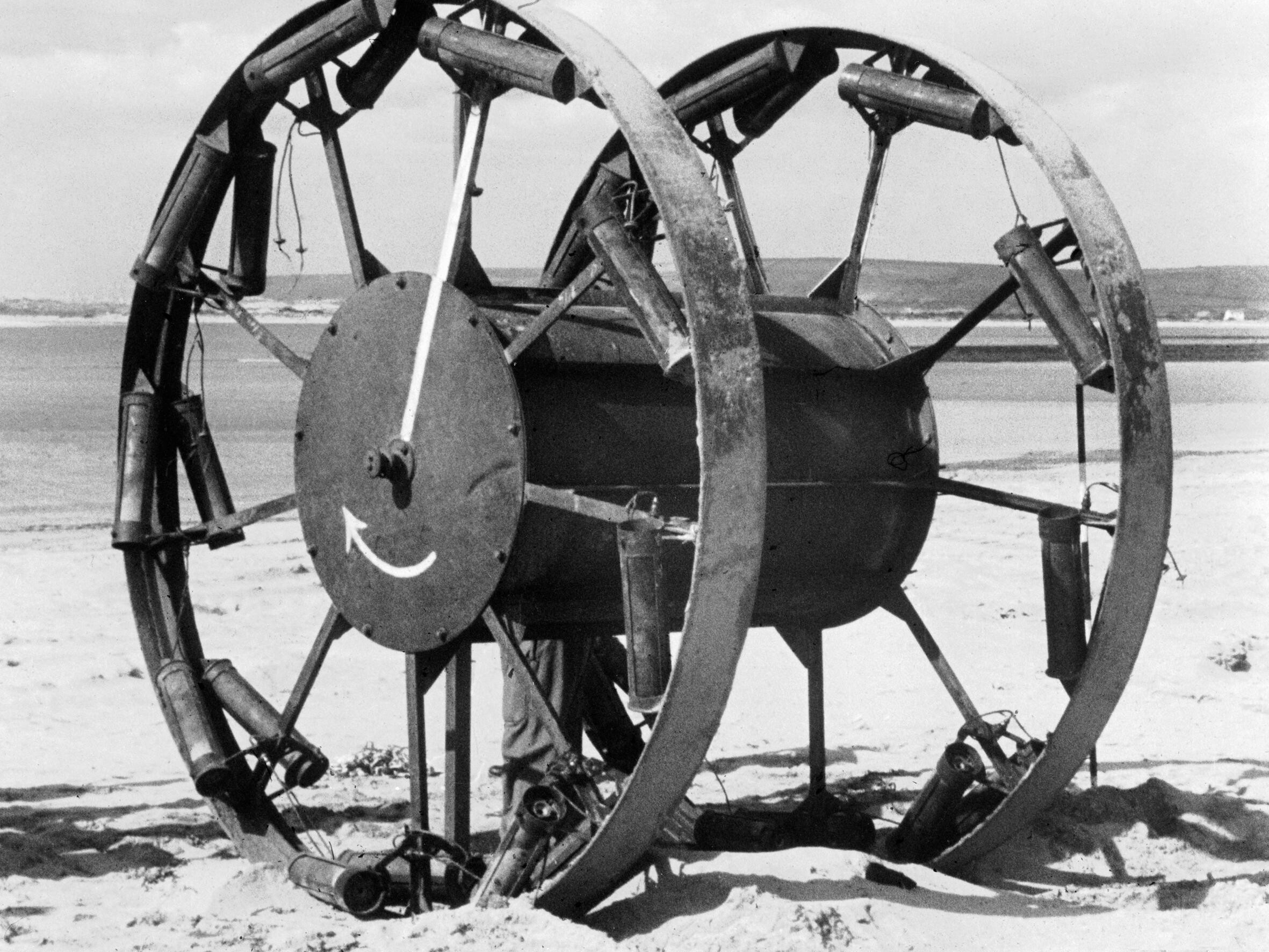 IWM caption : The Great Panjandrum at Westward Ho!, an abortive attempt at beach clearing.